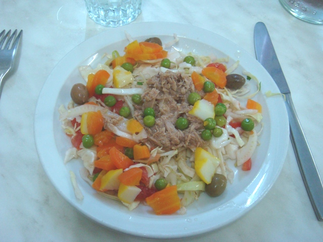 Tunisian salad